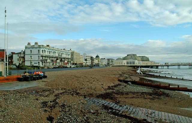 Marine Parade and beach In the distance is the Pavilion Theatre at the landward end of the pier. The beach here is shingle. A seagull is about to land on the beach.